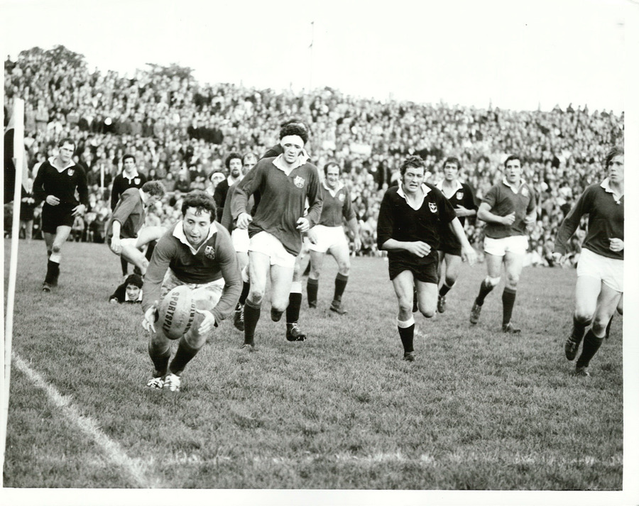 Images from NZ Archives Flickr albums Images uploaded in collaboration between WMUK and the University of Edinburgh